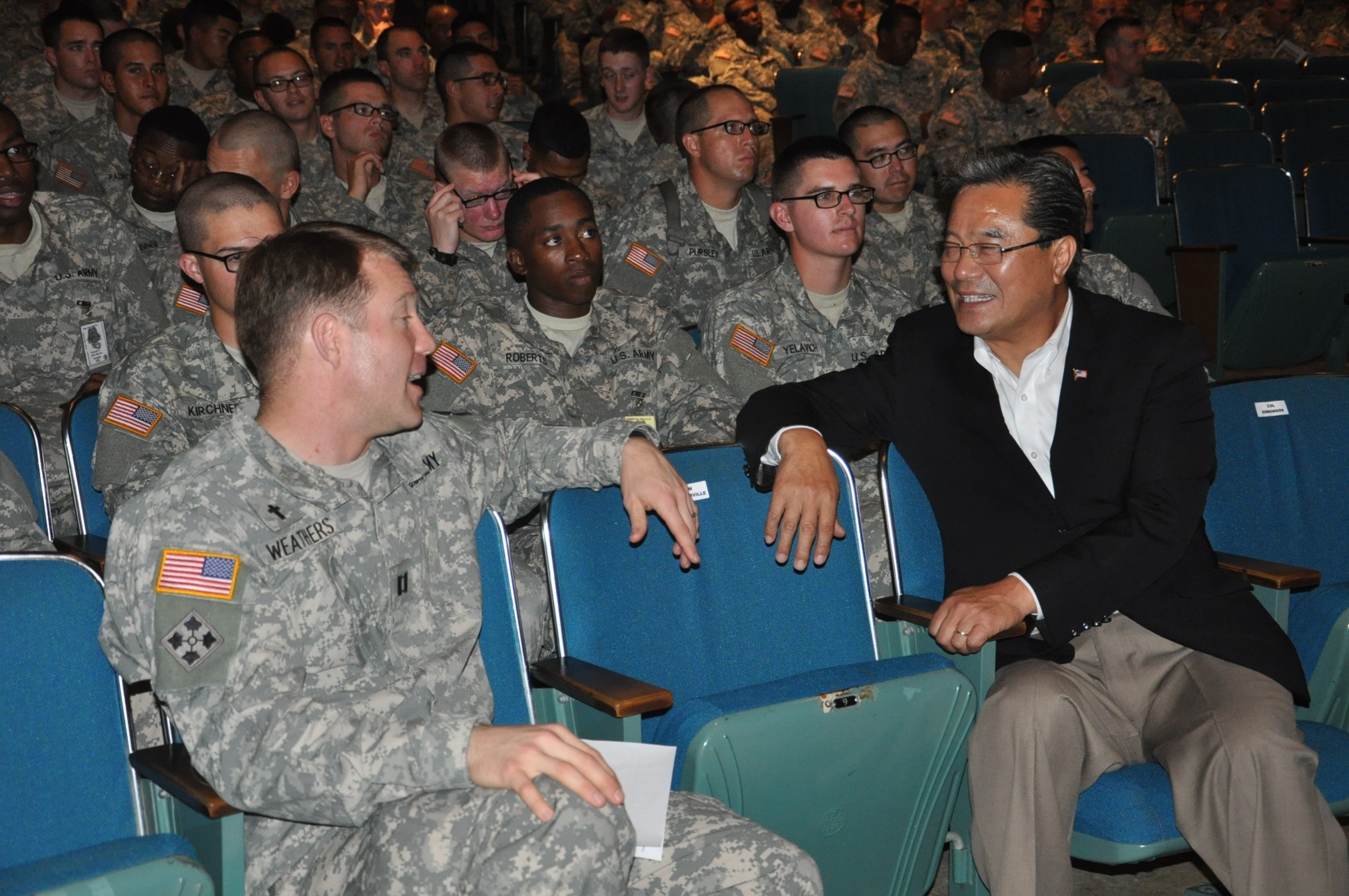 FORT GORDON, Ga. (June 6, 2014) - Chaplain (Capt.) Matthew W. Weathers, the 67th Expeditionary Signal Battalion chaplain, and guest speaker, Eugene Yu, exchanged some friendly banter before the Fort Gordon Asian American and Pacific Islander Heritage Month command program May 29 in Alexander Hall, Fort Gordon.